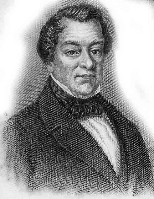 Thore Petre (1793-1853)